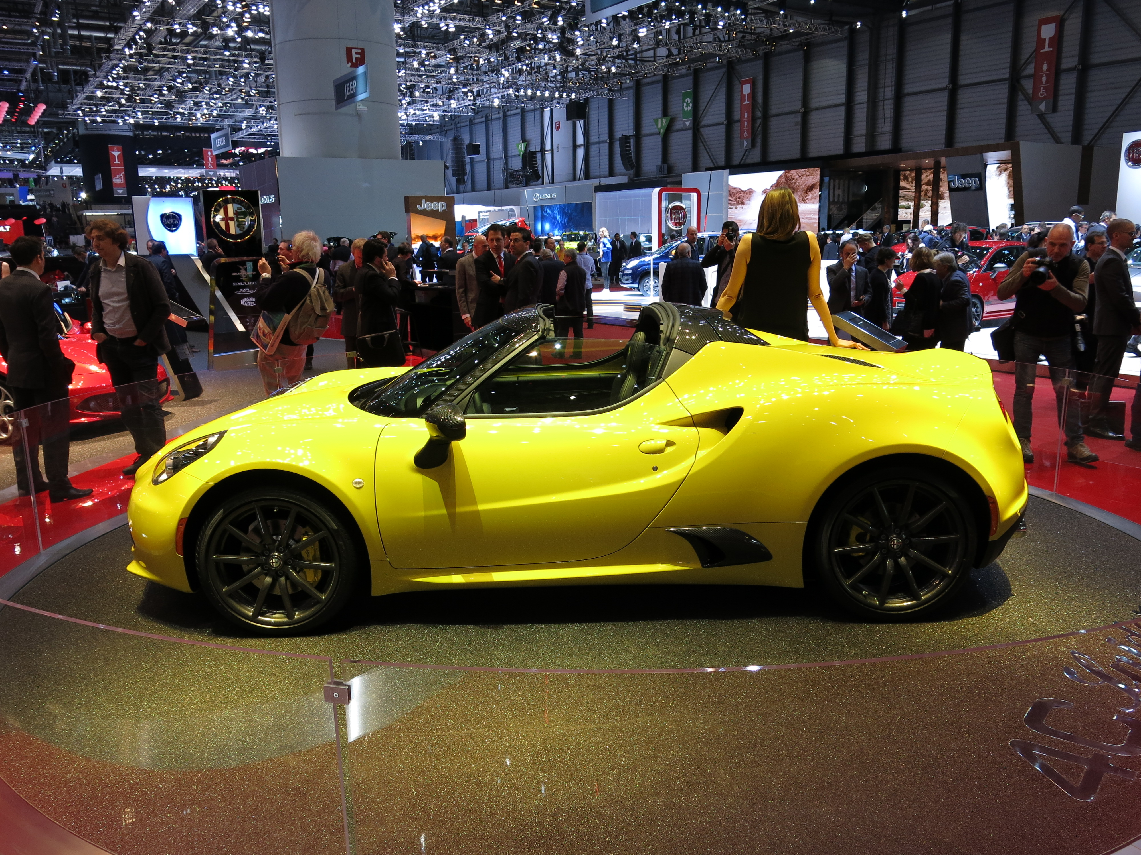 Geneva Motor Show 2015 (photo taken on the first press day)